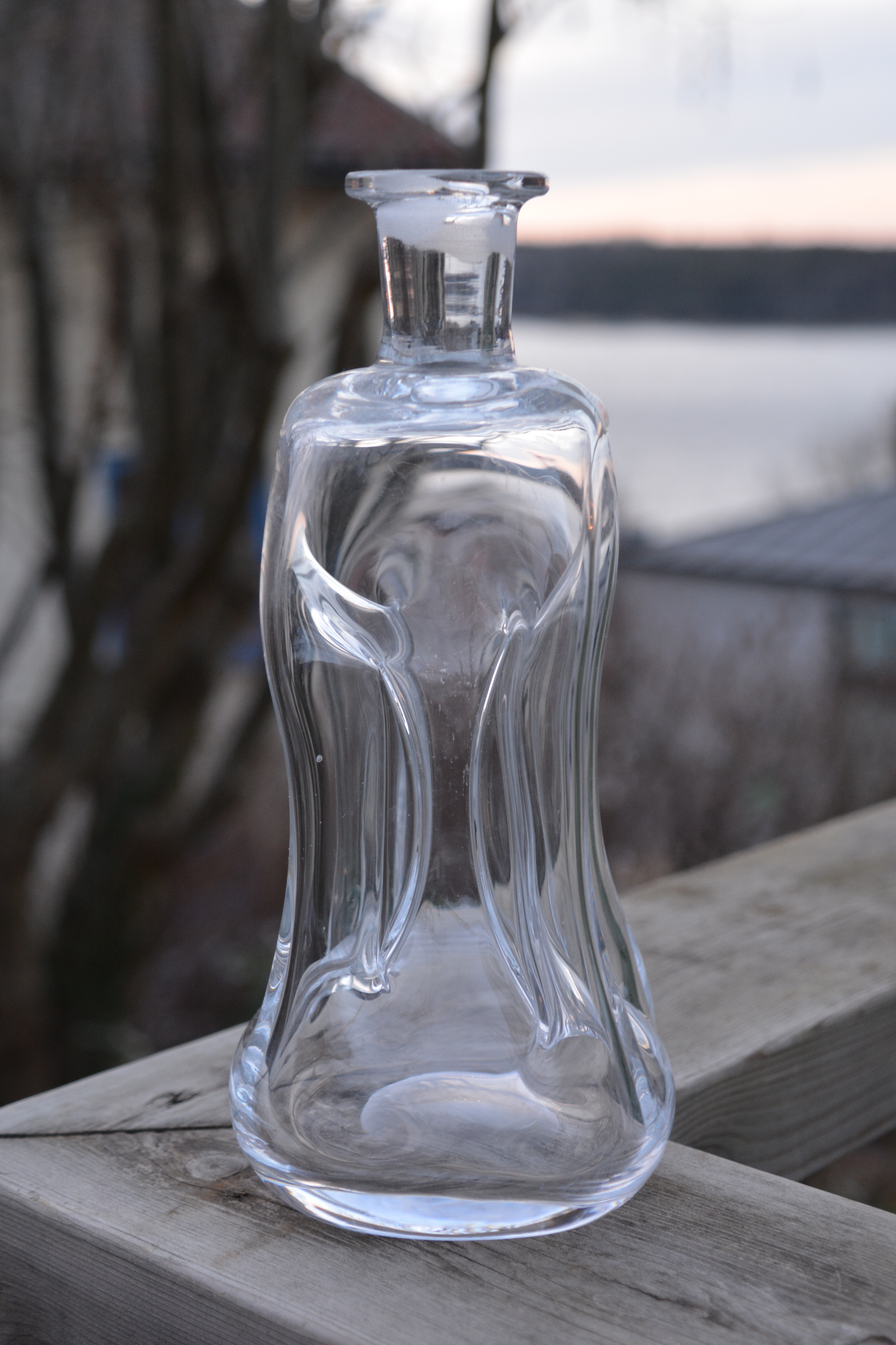 Klukkeflaske, Holmegaard Glasvaerk, Denmark